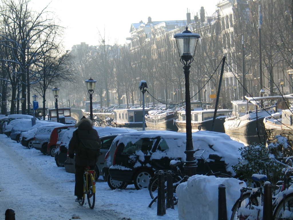 Herengracht in December 2010